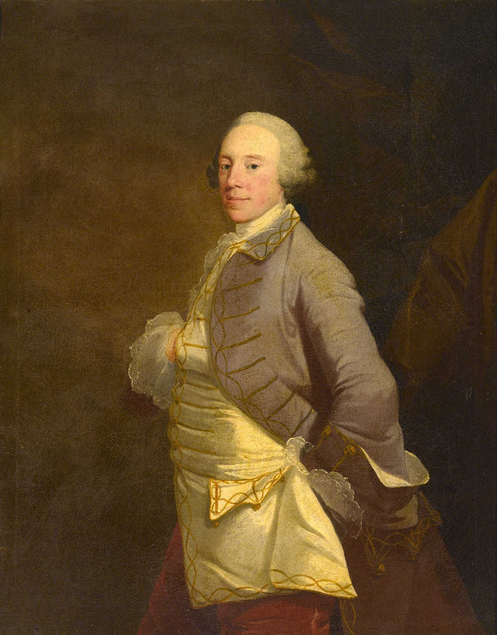 Henry Langford Brown (1721-1800), of Comb Satchfield, Silverton and Kingskerswell, Devon. 1756 portrait, Oil on canvas, 127 x 101.5 cm, British (English) School. Collection of Royal Albert Memorial Museum, Exeter, accession number: 64/1957/3. Provenance: gift from Mr T. H. L. Brown, 1957.